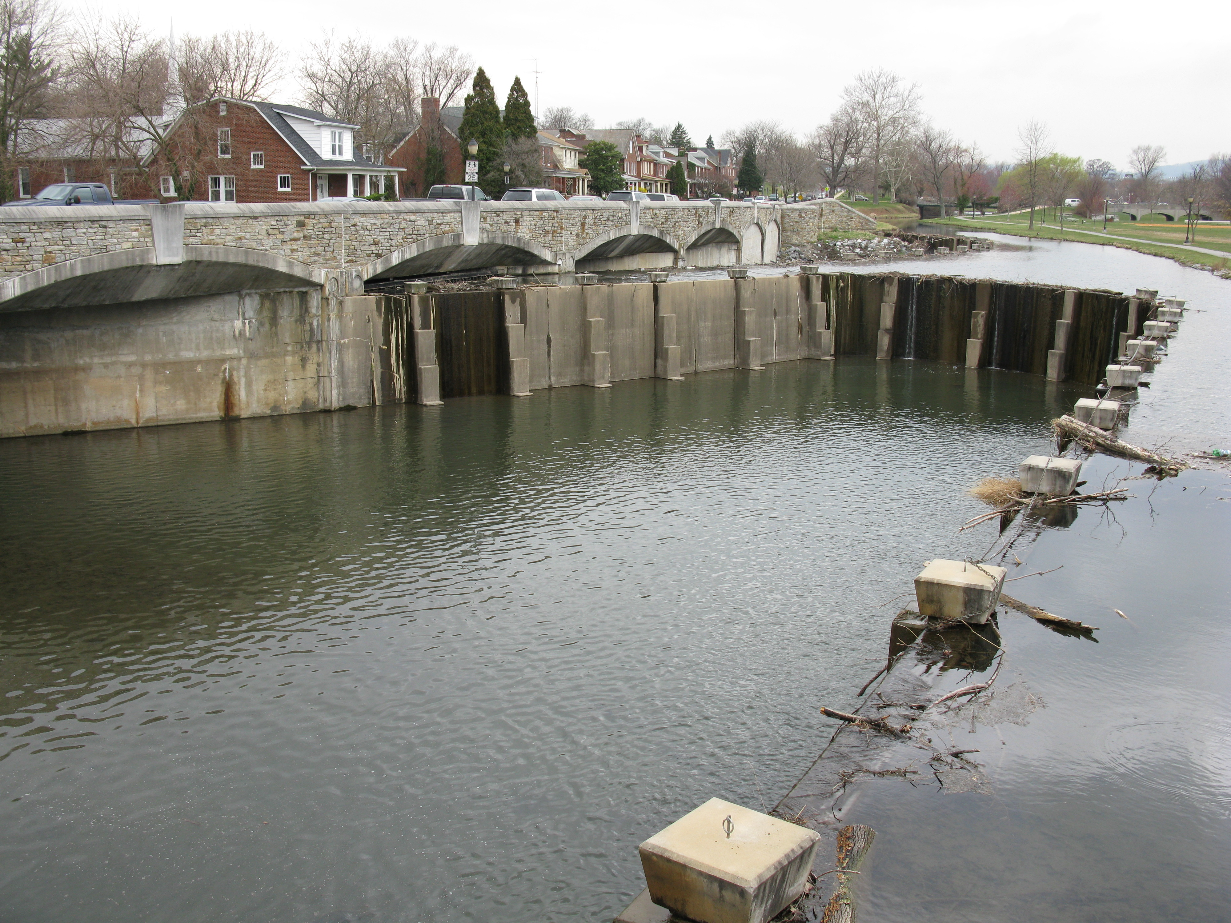 Carroll Creek at MD 355 (N Bentz St), Frederick, MD